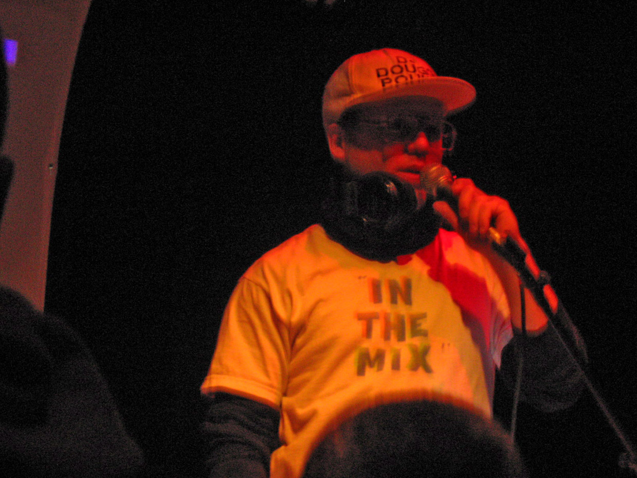 DJ DOUGG POUND IN THE MIX